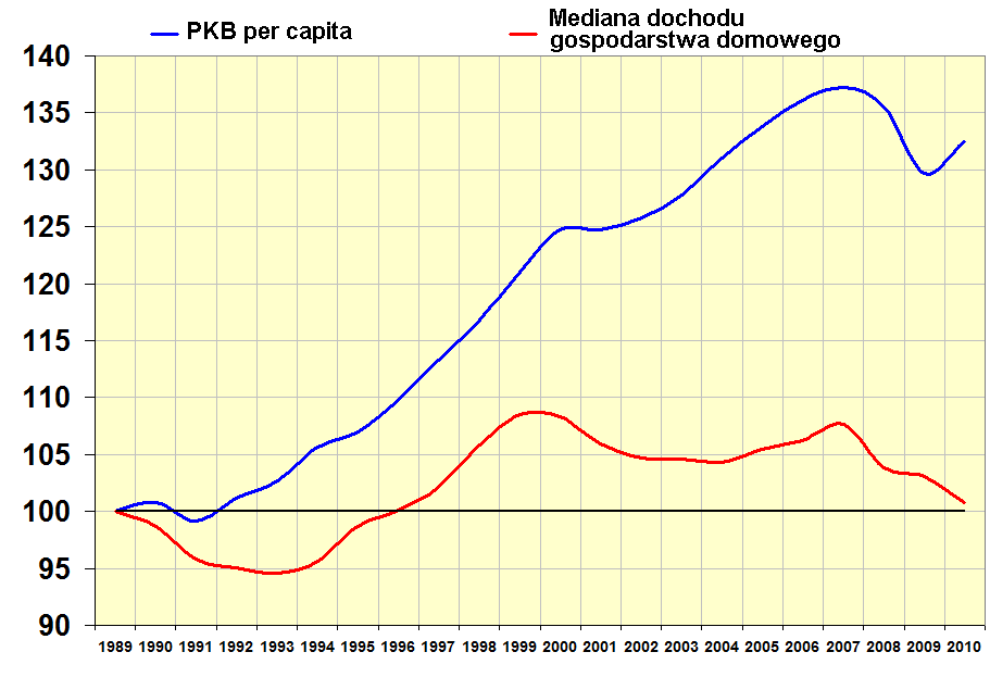 GDP per capita versus mean household income